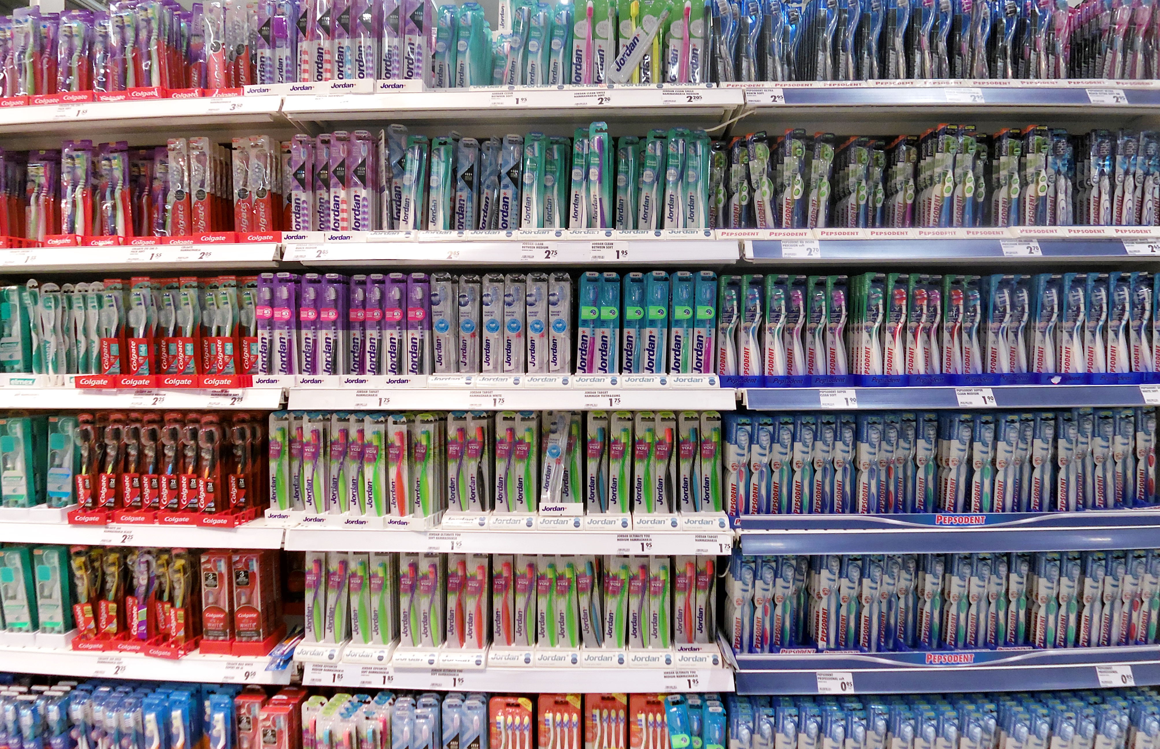 Toothbrushes in Veljekset Keskinen store in Tuuri, Finland.